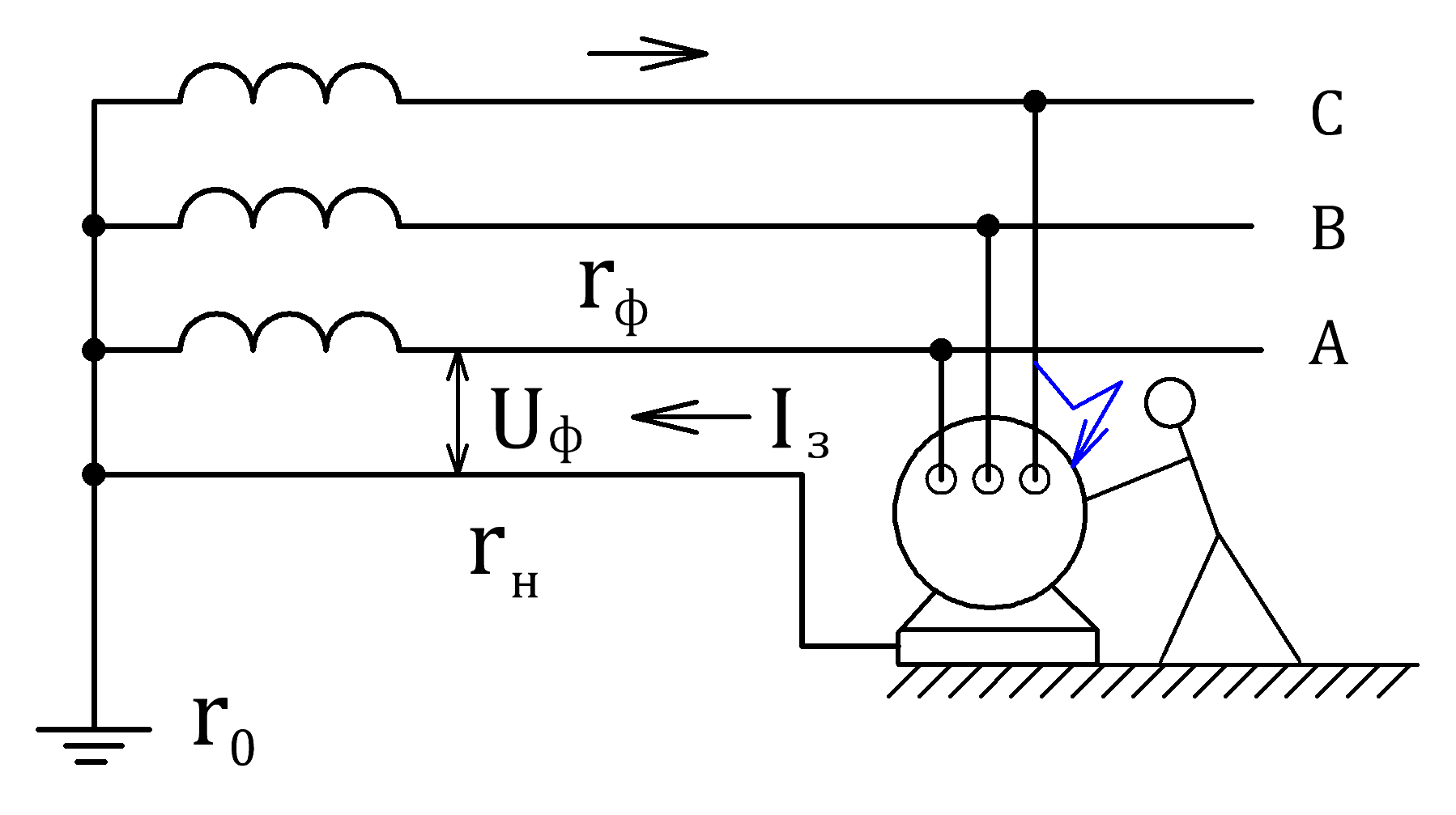 principle of neutral line